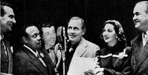 Life magazine ad for Lucky Strike cigarettes featuring Jack Benny, 1946. Photo of radio show's cast. Pictured from left: Phil Harris, Eddie Anderson, Dennis Day, Jack Benny, Mary Livingstone, Don Wilson. Copyright details There are no copyright marks on the full pages of the ad, as can be seen at the link above. The pages are clearly marked as advertisements, so they are not a part of any Life Magazine copyrights. US Copyright Office page 3-magazines are collective works (PDF) "A notice for the collective work will not serve as the notice for advertisements inserted on behalf of persons other than the copyright owner of the collective work. These advertisements should each bear a separate notice in the name of the copyright owner of the advertisement." Image can be dated from the magazine's date, 30 September 1946.